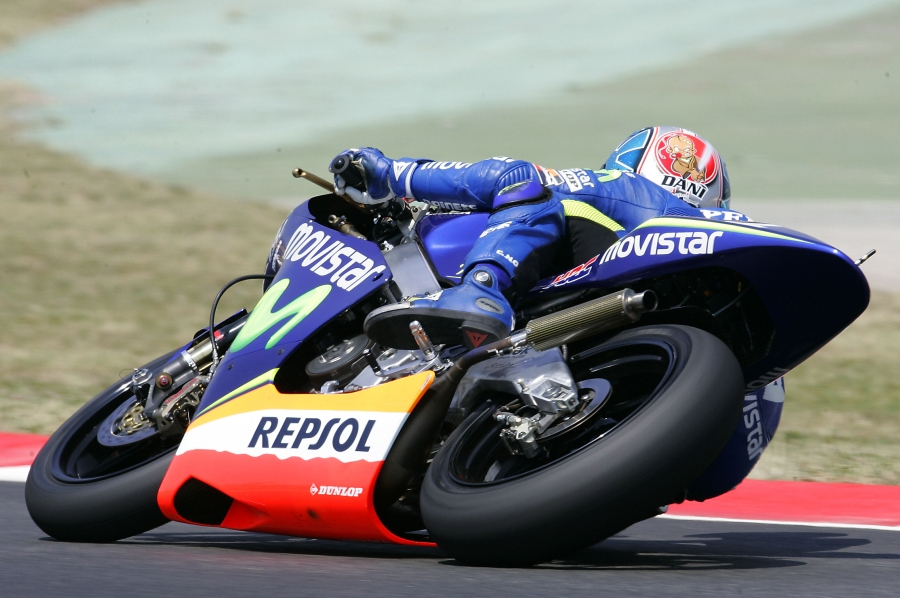 Dani Pedrosa, riding his 250cc Telefónica Movistar Honda at the 2005 Catalan Grand Prix.